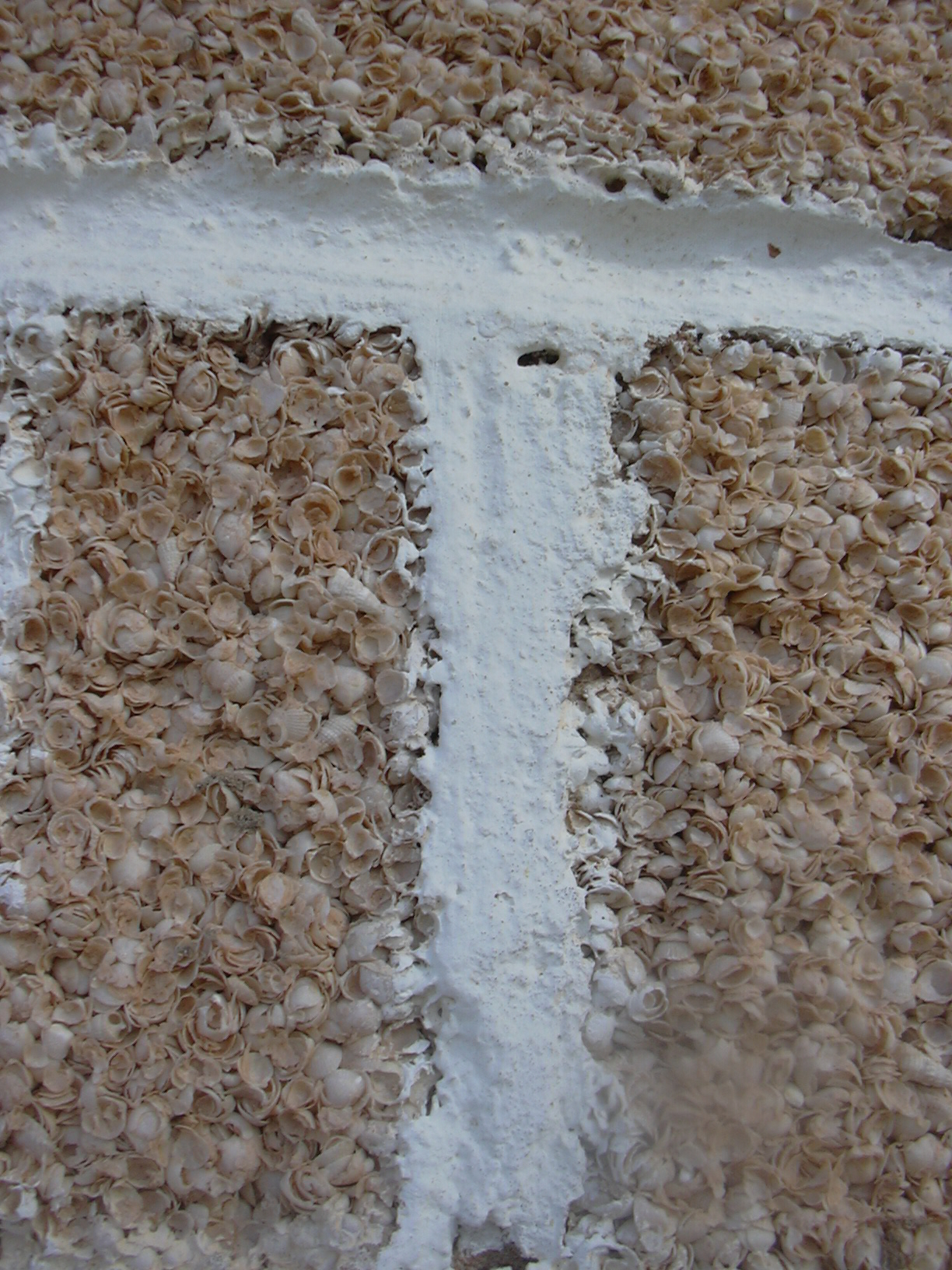 Denham, coquina as former construction material, Shark Bay/Western Australia